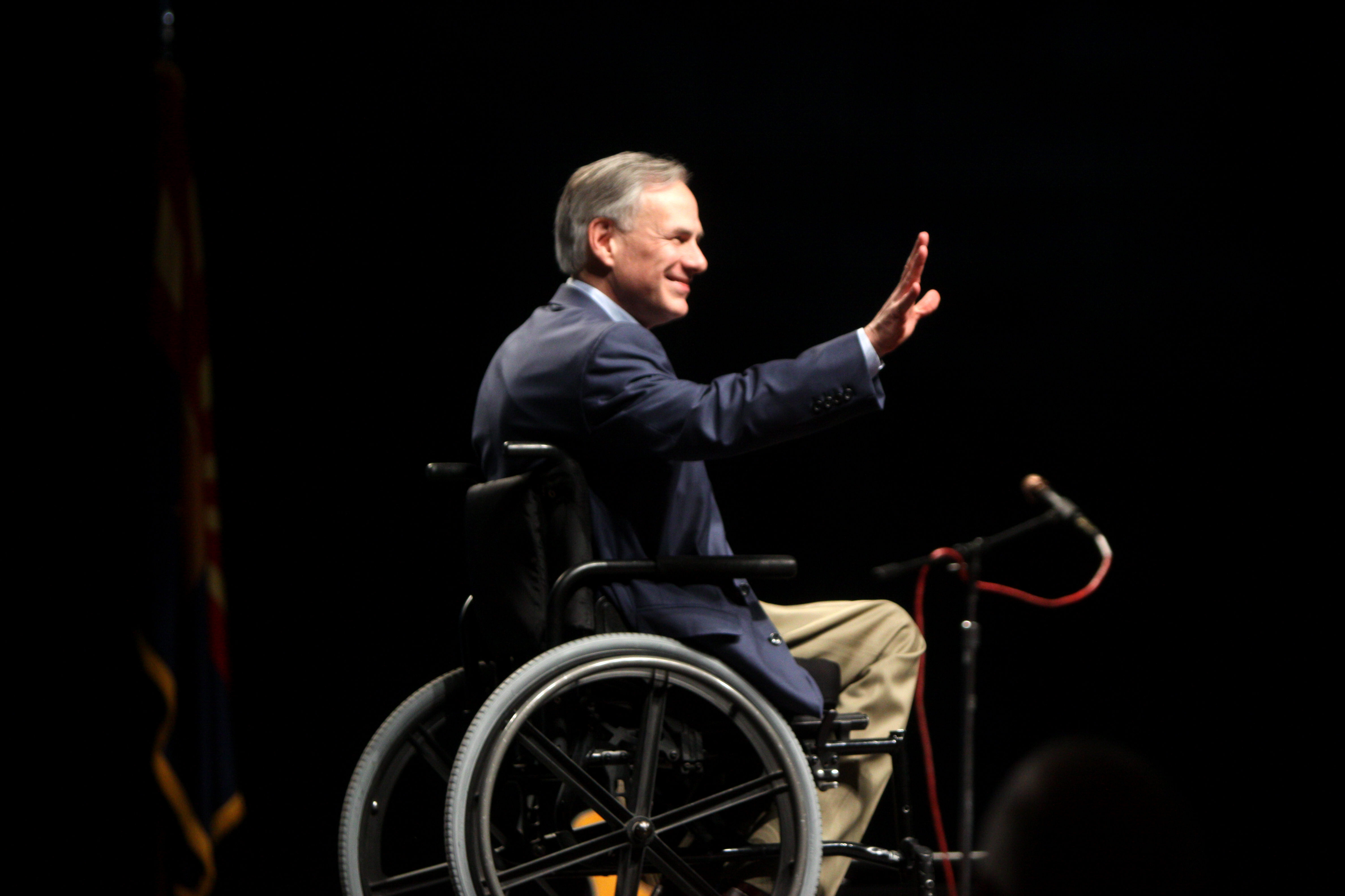 Texas Attorney General Greg Abbott speaking at FreePac, hosted by FreedomWorks, in Phoenix, Arizona.